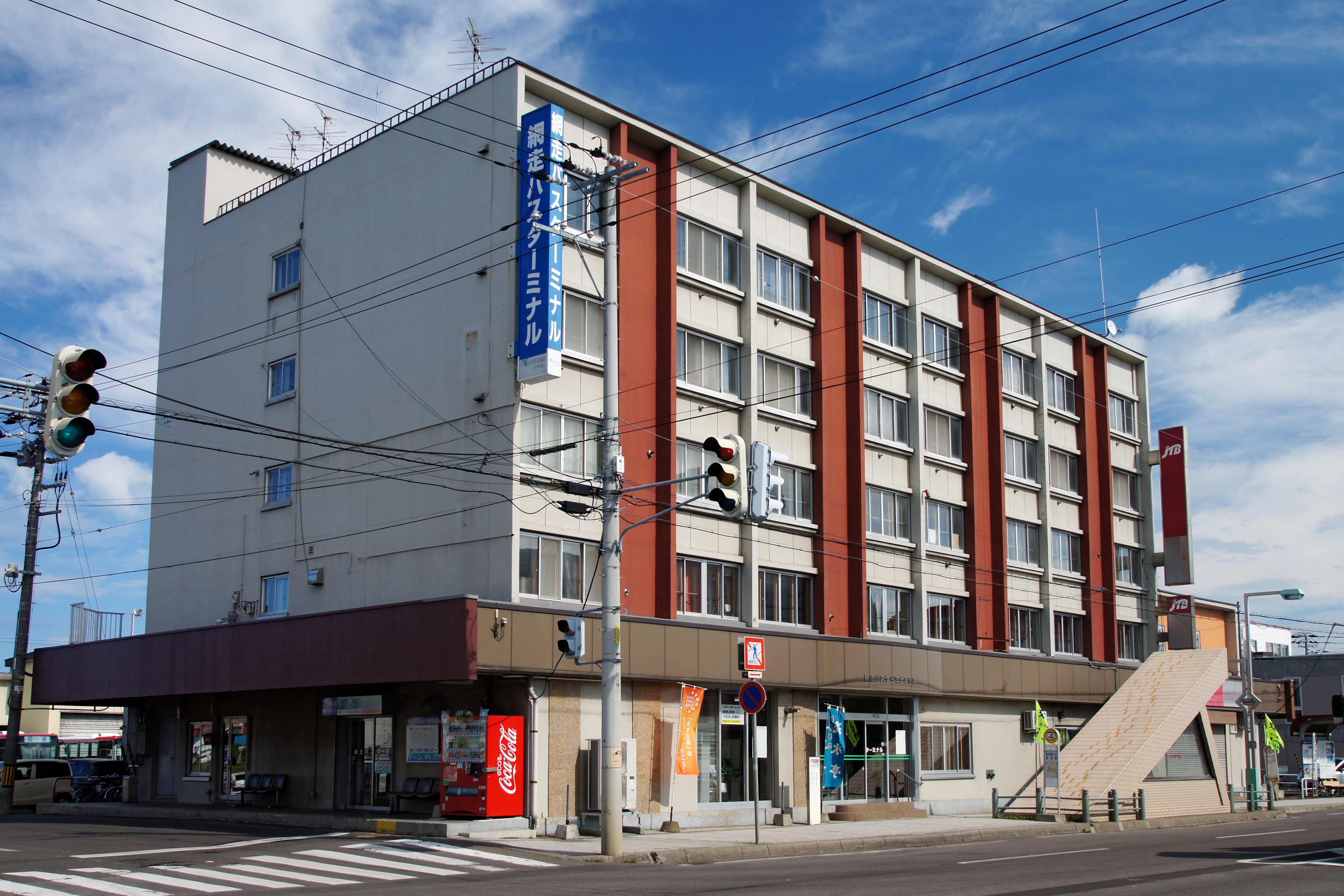 Abashiri Bus Co., Ltd. headquarters building in Abashiri, Hokkaido prefecture, Japan